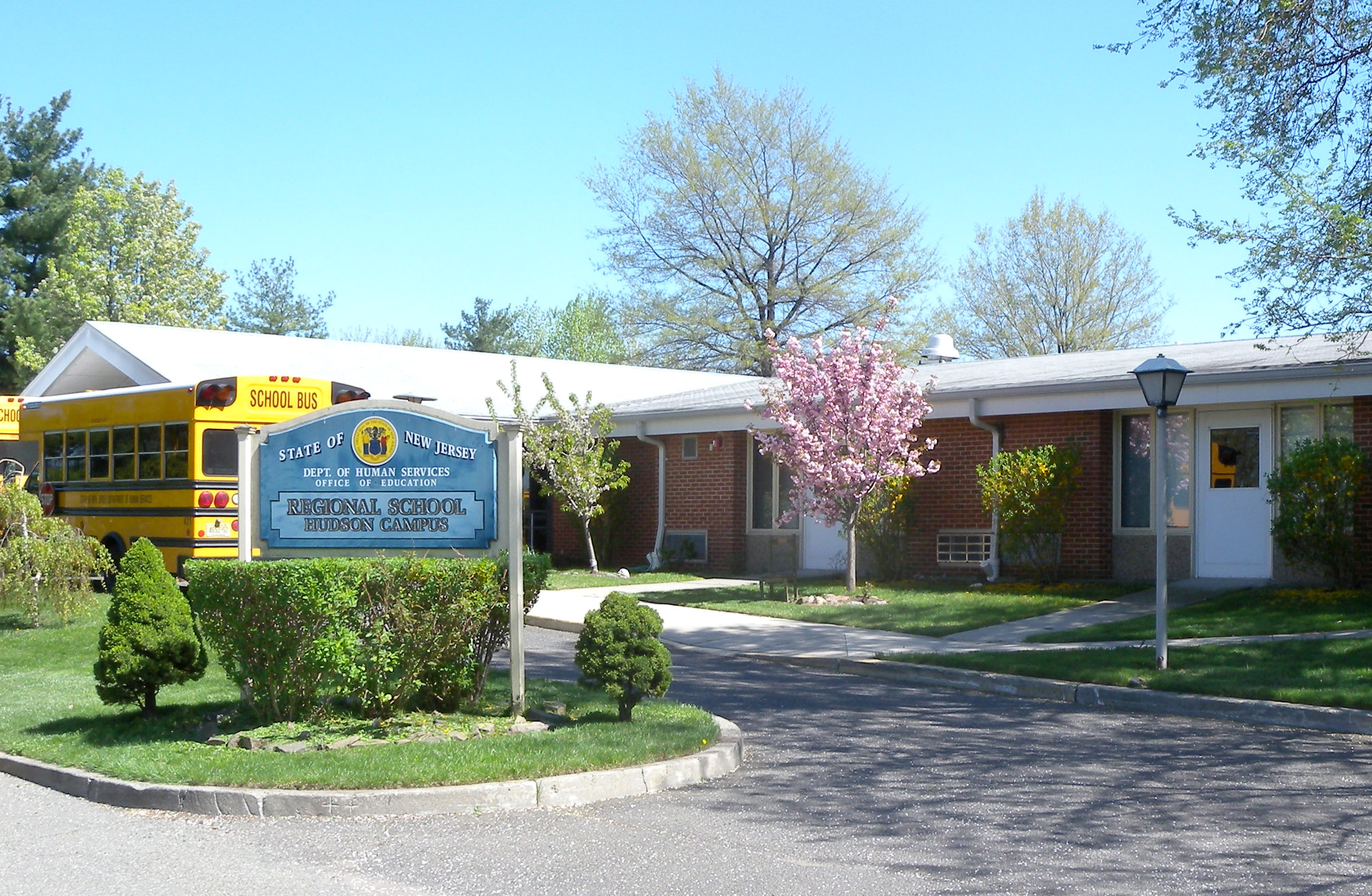 Looking east from Millridge Road at school of New Jersey Department of Human Services school in northern Secaucus on a sunny midday.